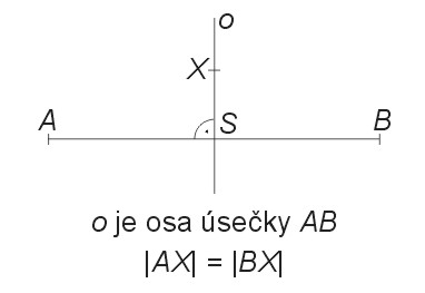 Axis of a segment